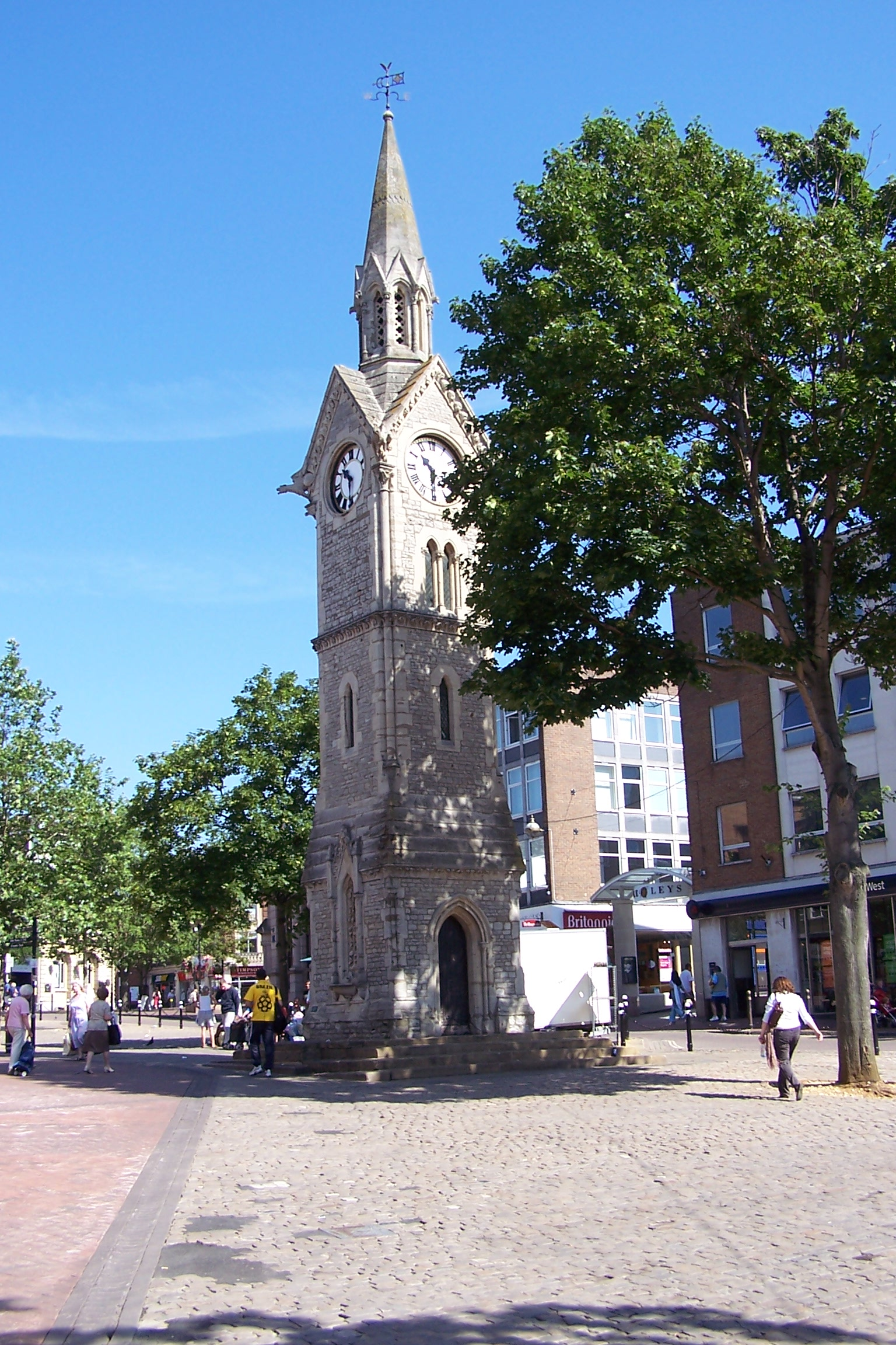 Clocktower on Market Square in Aylesbury.